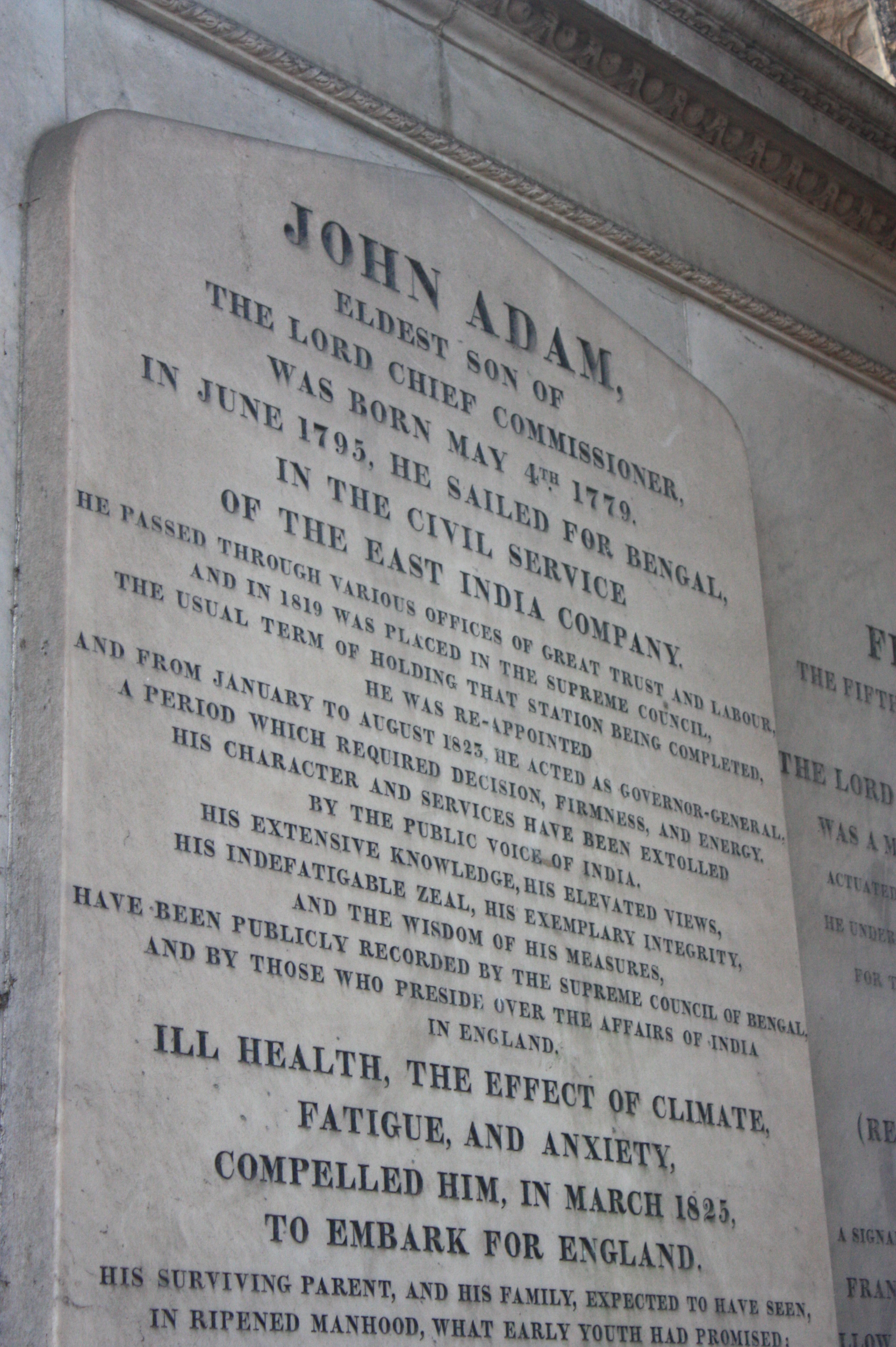 The memorial to John Adam in the Adam mausoleum, Greyfriars kirkyard